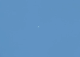 Regulus as viewed through a 110mm refractor in full daylight.